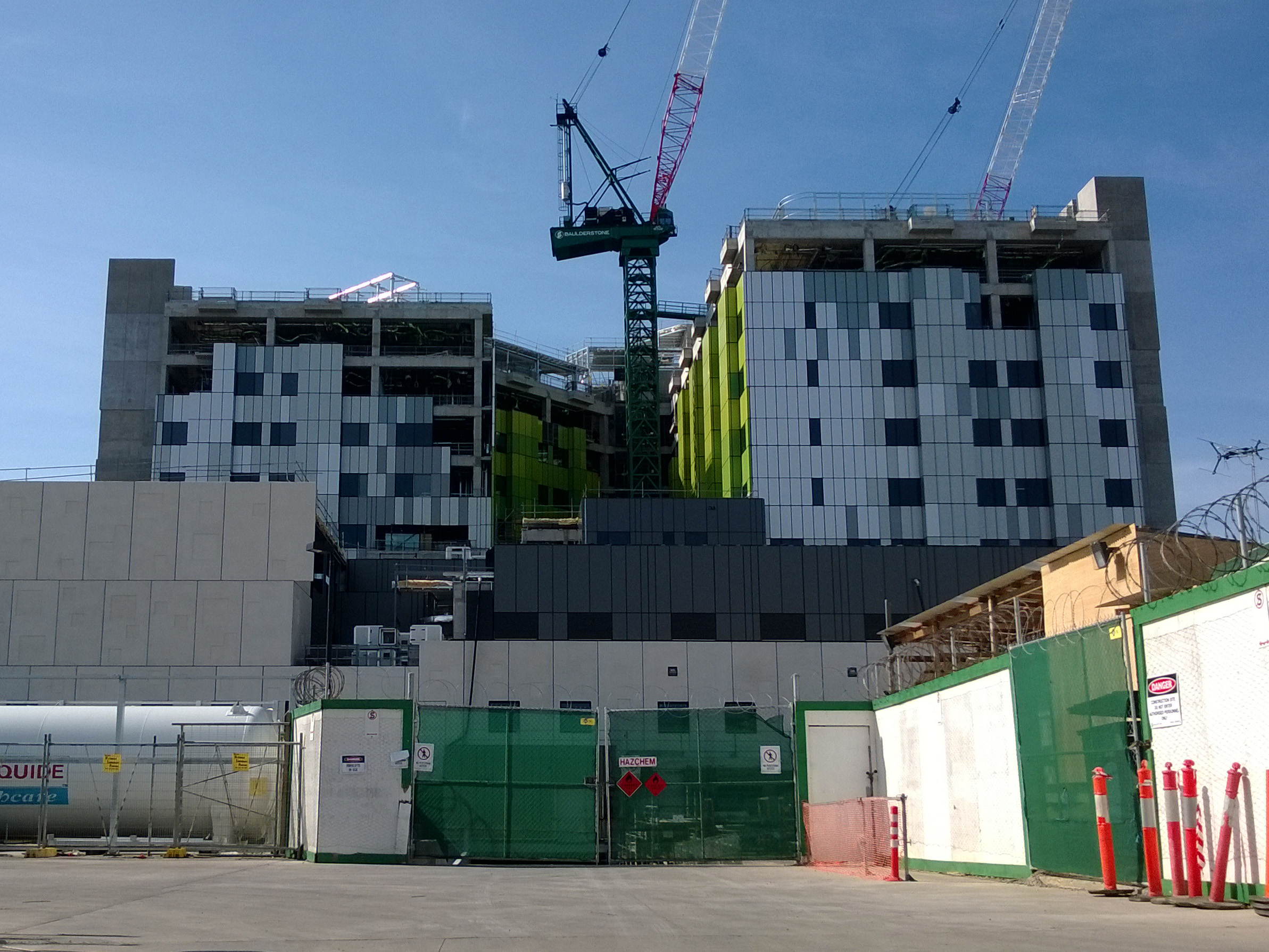 Box Hill Hospital, new section under construction on 01/09/2013